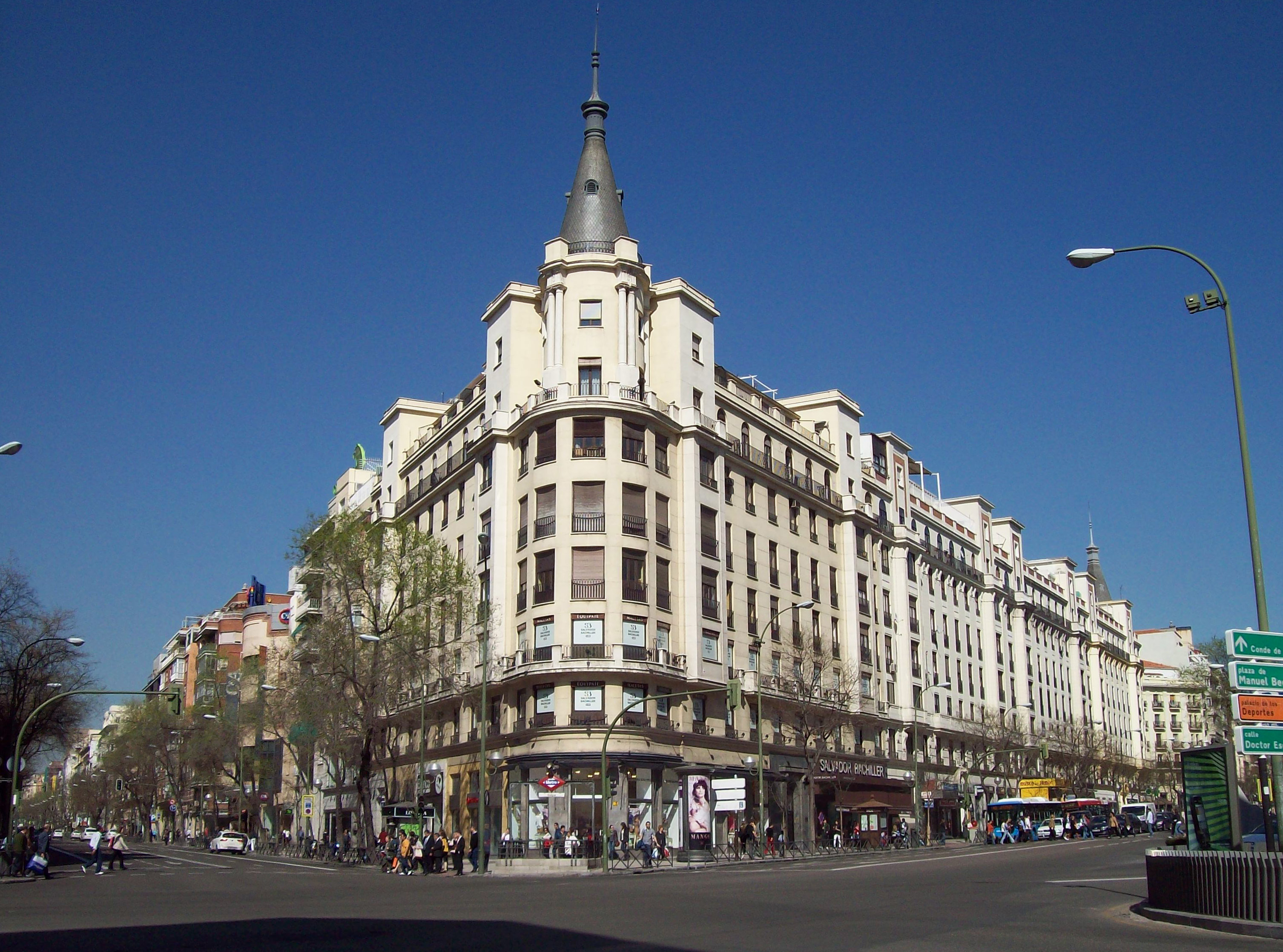 Building at 151 Calle de Alcalá (street, right) in Madrid (Spain), in Salamanca district. Built between 1940 and 1950. Left: Calle del Conde de Peñalver (street).